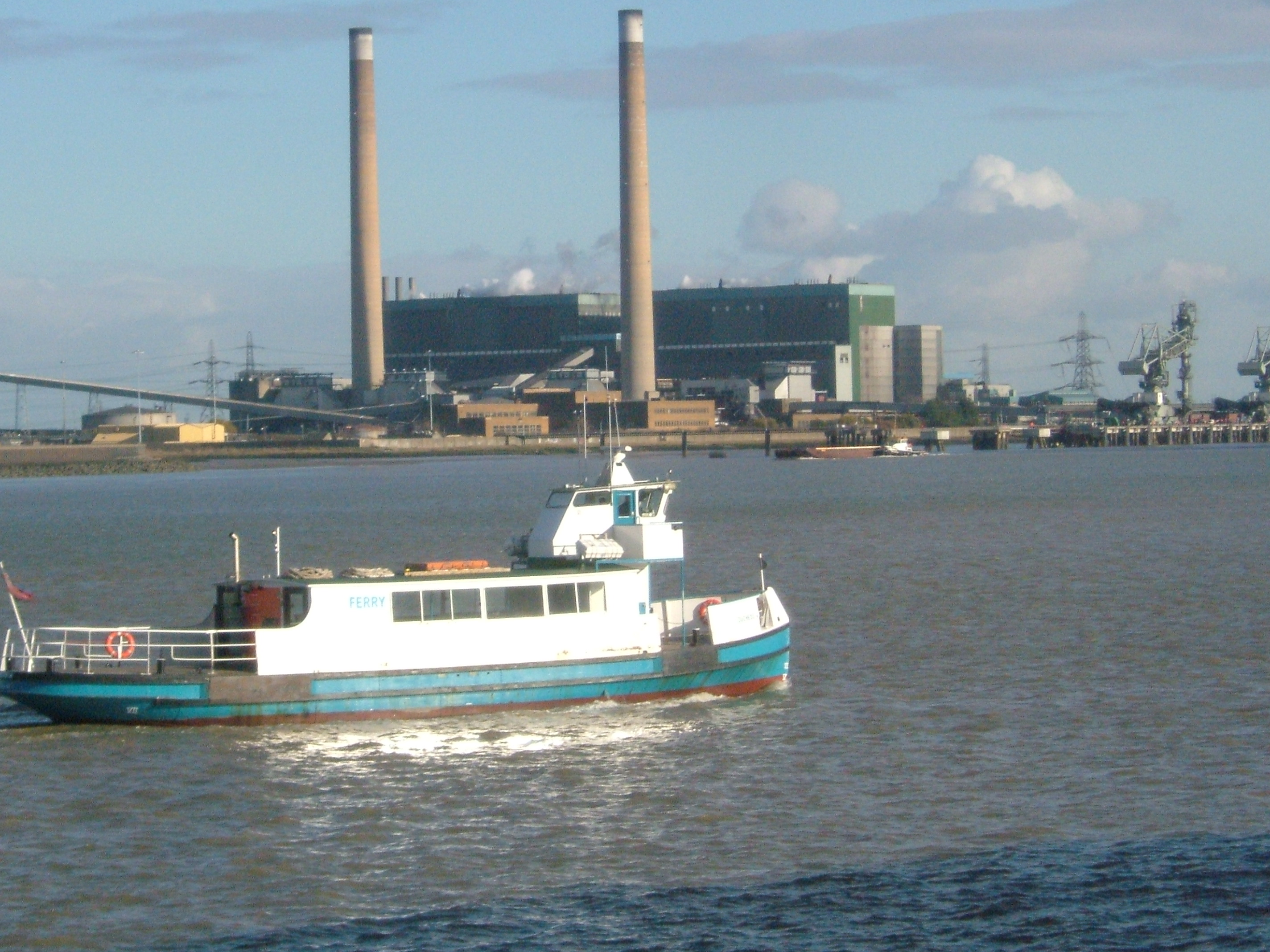 Gravesend is in North Kent, England on the River Thames. MV Duchess, the Gravesend Tilbury Ferry mid stream with Tilbury Power Station behind.